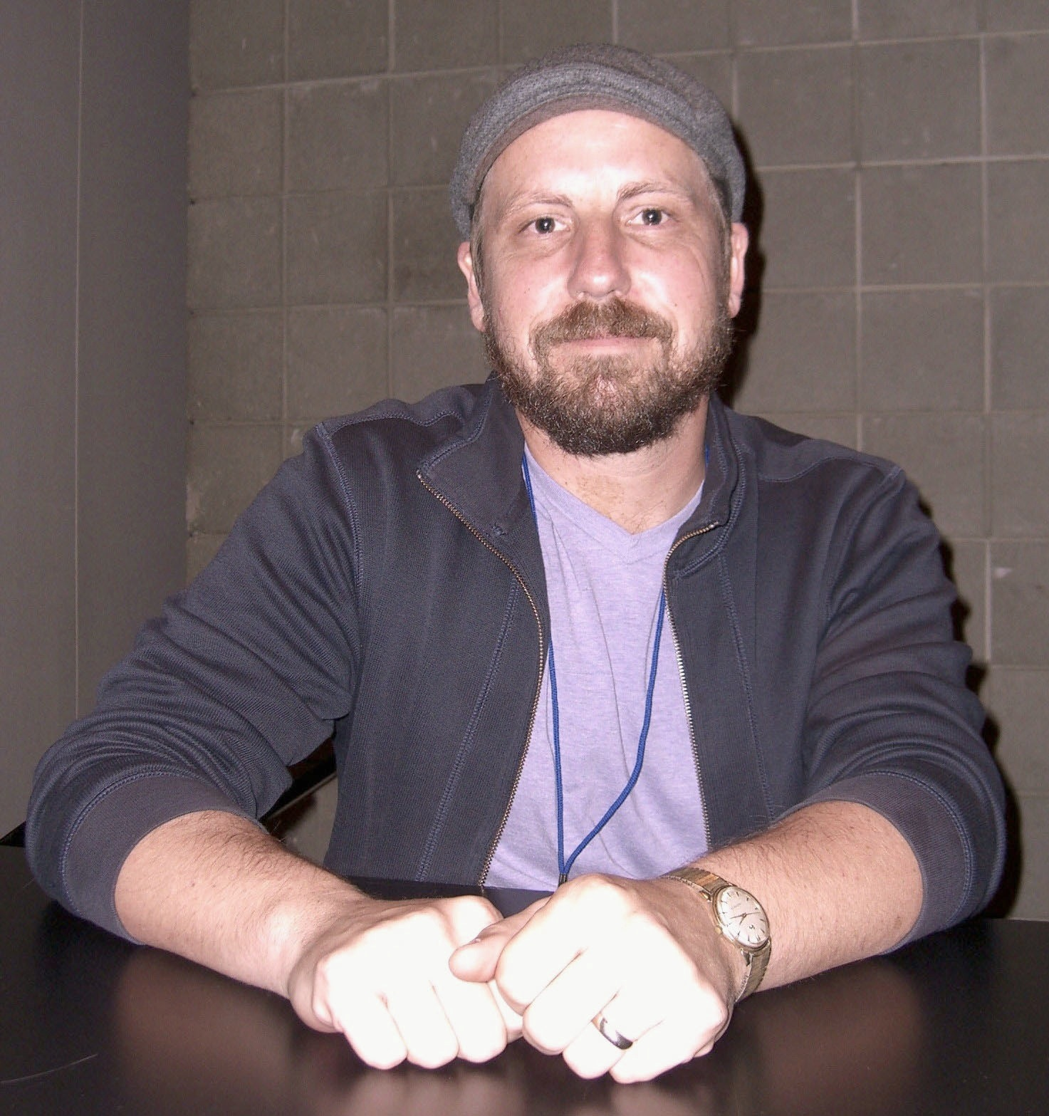 Comic book creator Tomm Coker at the New York Comic Convention in Manhattan, October 9, 2010. Photo by Luigi Novi. This photo may be used, modified and published for any purpose, only if a easily visible credit to the photographer is placed near the photo in each instance in which it is used. (See licensing information below.) Publication of this photo without this proper attribution constitute copyright infringement. For more information on my photos, you can contact me here.